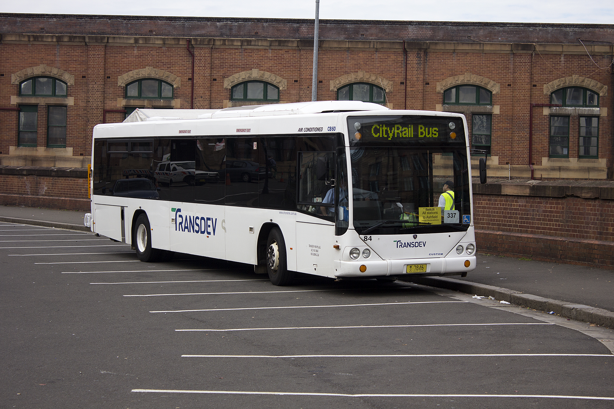 Transdev Shorelink Buses (mo 7846) Custom Coaches 'CB60' bodied Scania L94UB at Central Station in Sydney.